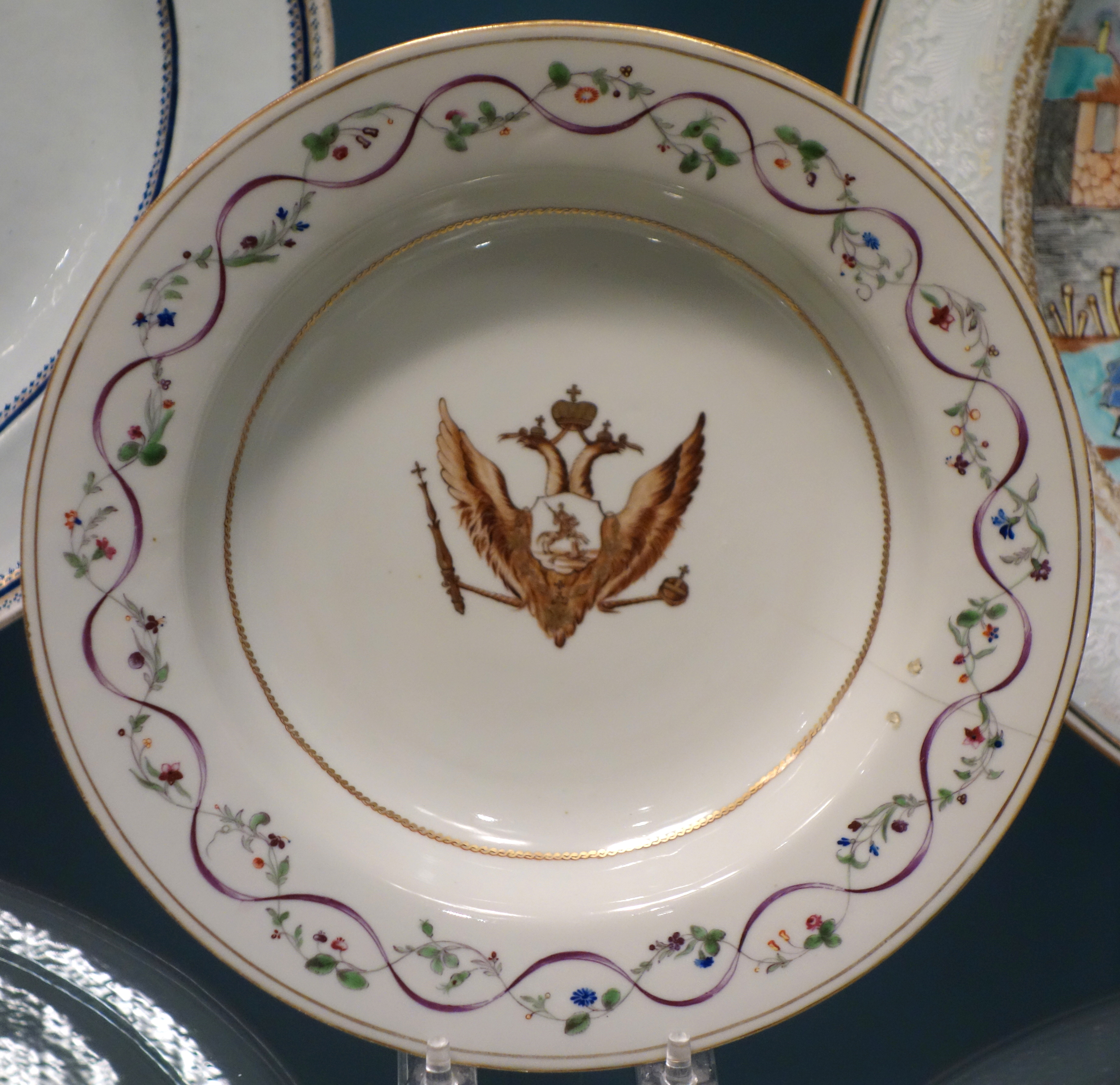 Exhibit in the Winterthur Museum, New Castle County, Delaware, USA. This work is in the public domain because the artist died more than 70 years ago.